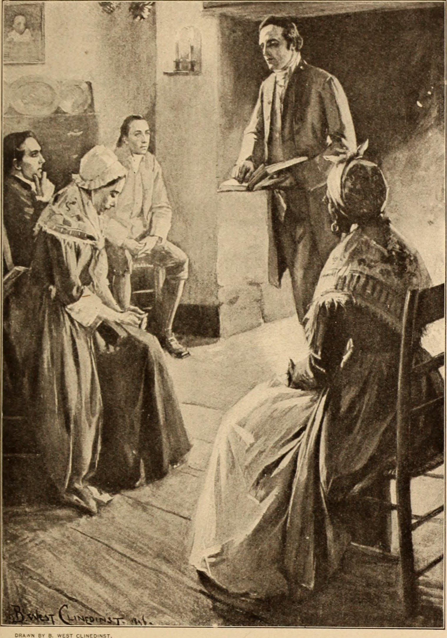 Title: The history of Methodism Year: 1902 (1900s) Authors: Hurst, J. F. (John Fletcher), 1834-1903 Subjects: Methodism Publisher: New York : Eaton & Mains Text Appearing Before Image: lbany. It was at one of its evening meetings, some months afterthat famous card party which a womans touch transformedinto a revival, that the Methodist congregation was surprised,somewhat startled, perhaps, by the entrance of a Britishofficer. It was not too rare an occurrence in those days forpersons of quality to mock at the humble Methodists, and thesight of a scarlet coat and gold lace was calculated to disturba worshiping assemblage. But it soon became known thatthis man, though he held the kings commission, was a fervent Methodist. Thomas Webb, though young in the Gospel service, was aveteran of the French and Indian wars. A green patchconcealed the loss of the right eye, which had been put outby a French ball at Louisbourg, and scars in his arm borewitness to his heroism at Quebec under General Wolfe.He was a half-pay lieutenant on the retired list, and in hisforty-first year (1764), when the hot shot of John Wesleyspreaching at Bristol penetrated his heart and kindled a flame Text Appearing After Image: WEST CLiNEOiNST. THE FIRST METHODIST MEETING IN NEW YORK. A Preacher in Scarlet 11 of Christian devotion which was thenceforward the center ofall his thoughts and actions. From a fervent exhorter hesoon became an attractive and effective local preacher. His